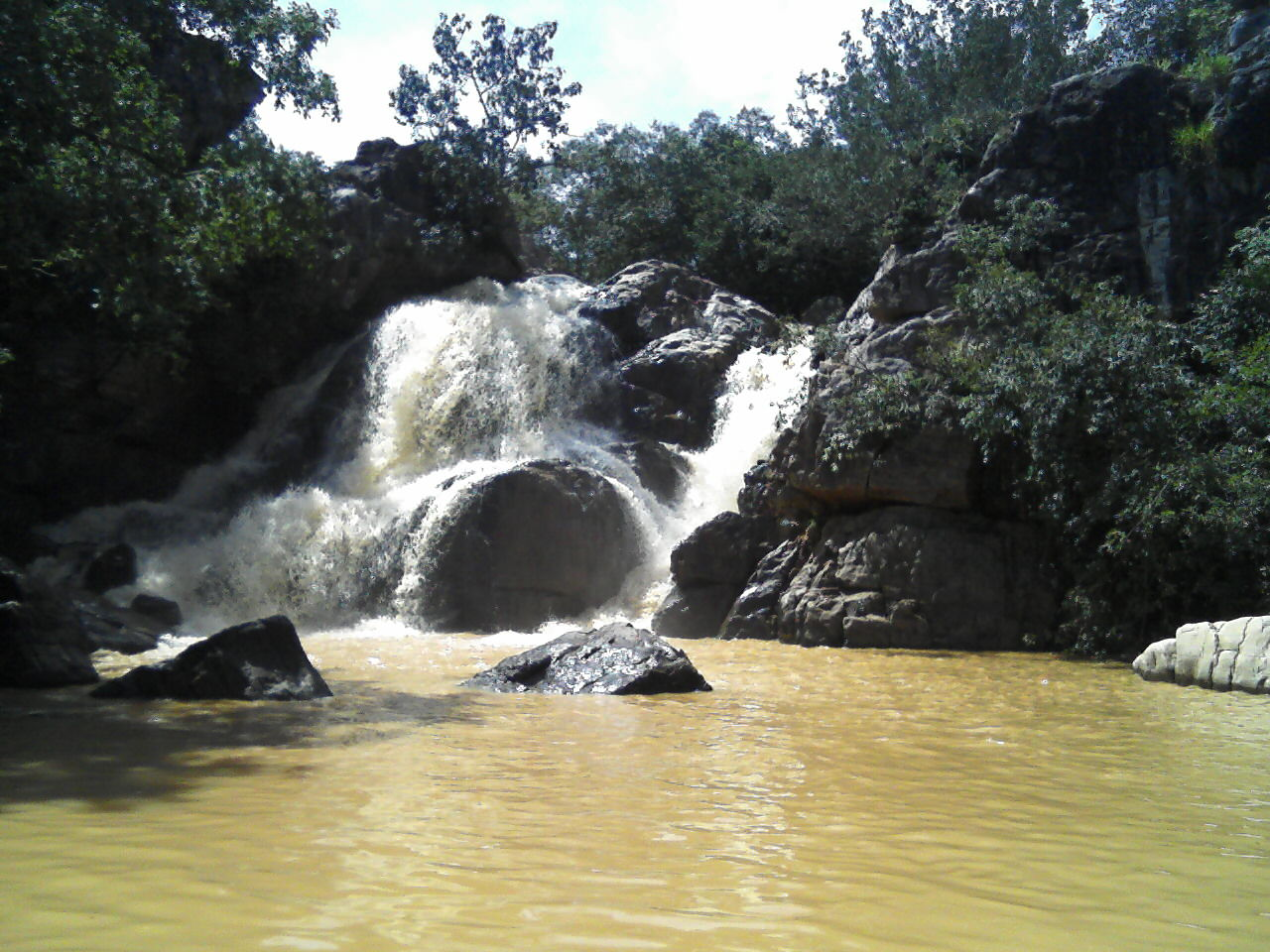 One of the most remarkable place of keonjhar district,Odisha ,India.